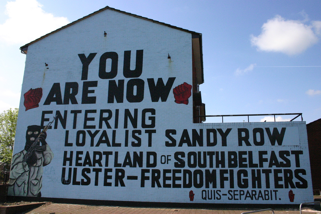 An Ulster Defence Association/Ulster Freedom Fighters mural on Sandy Row in Belfast, Northern Ireland.